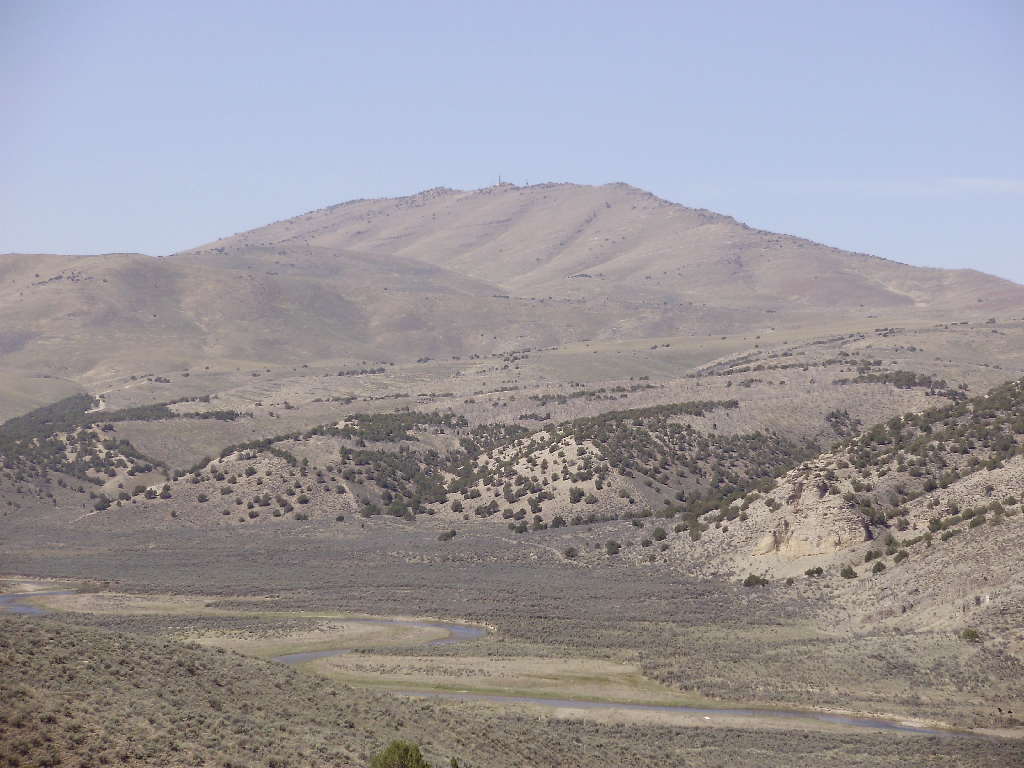 View of Grindstone Mountain, Nevada from Bullion Road north of the South Fork Humboldt River